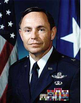 Brigadier General Hugh C. Cameron